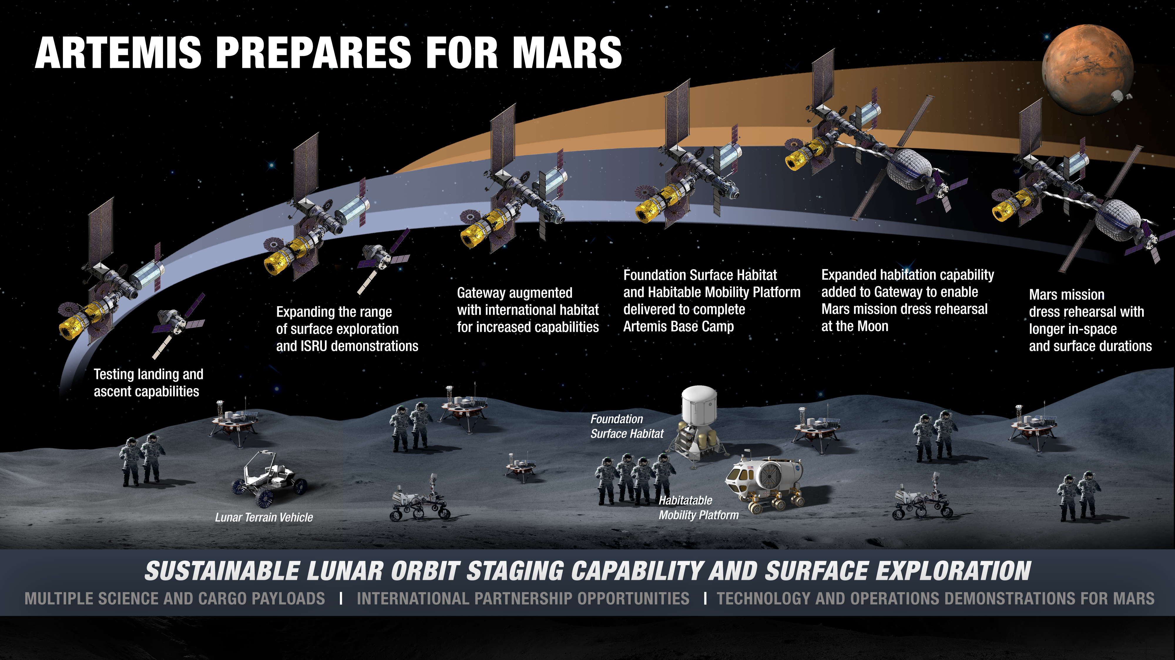 NASA's outline for lunar exploration in the 2020s